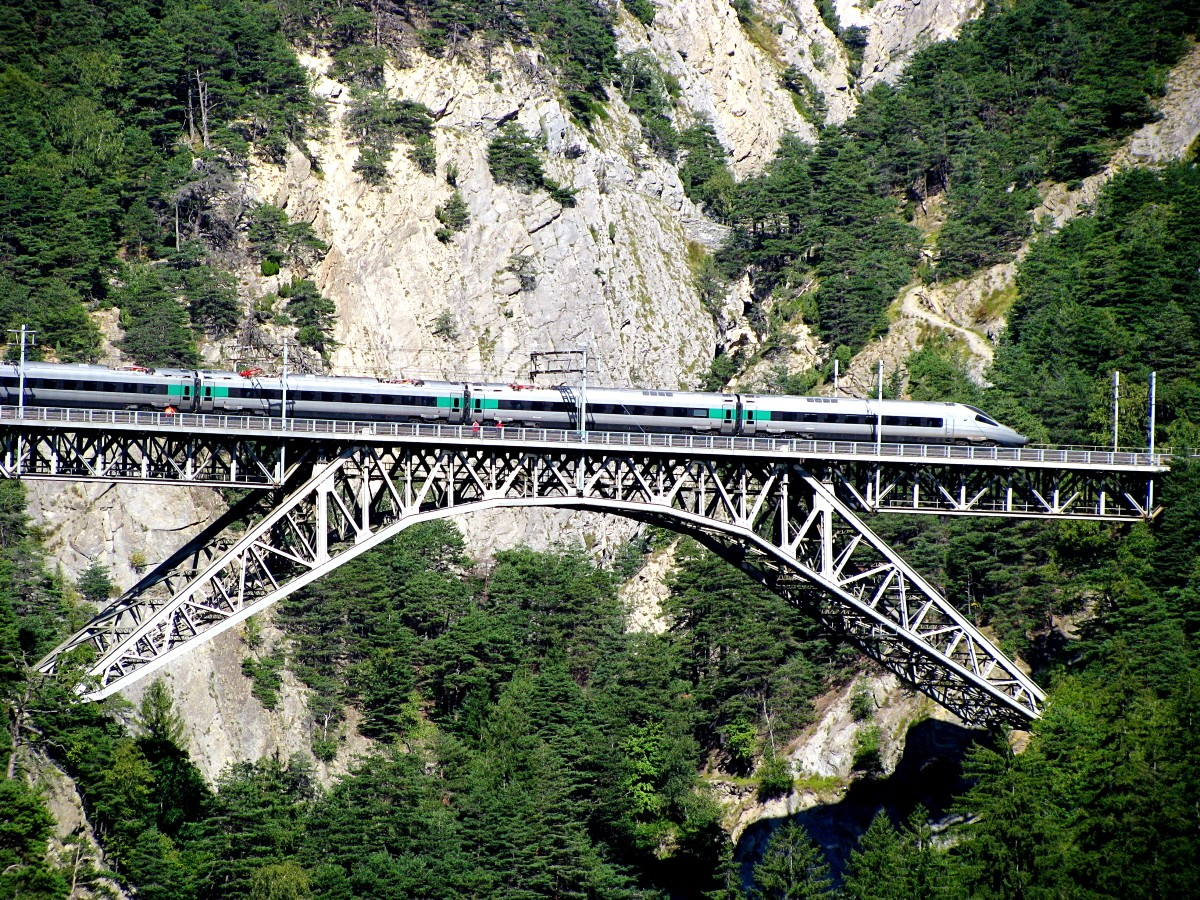 Lötschberg mountain line. The Bietschtal viaduct on the BLS line between Brig and Goppenstein.